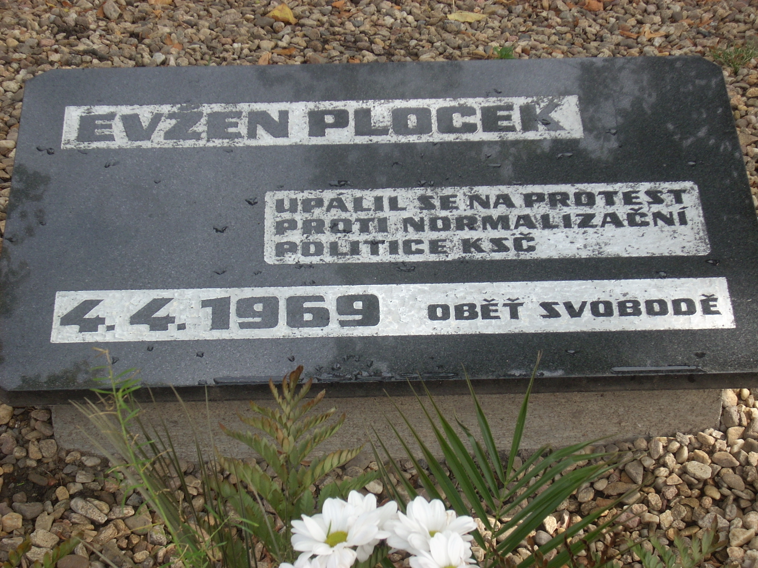 Memorial tablet of Evžen Plocek